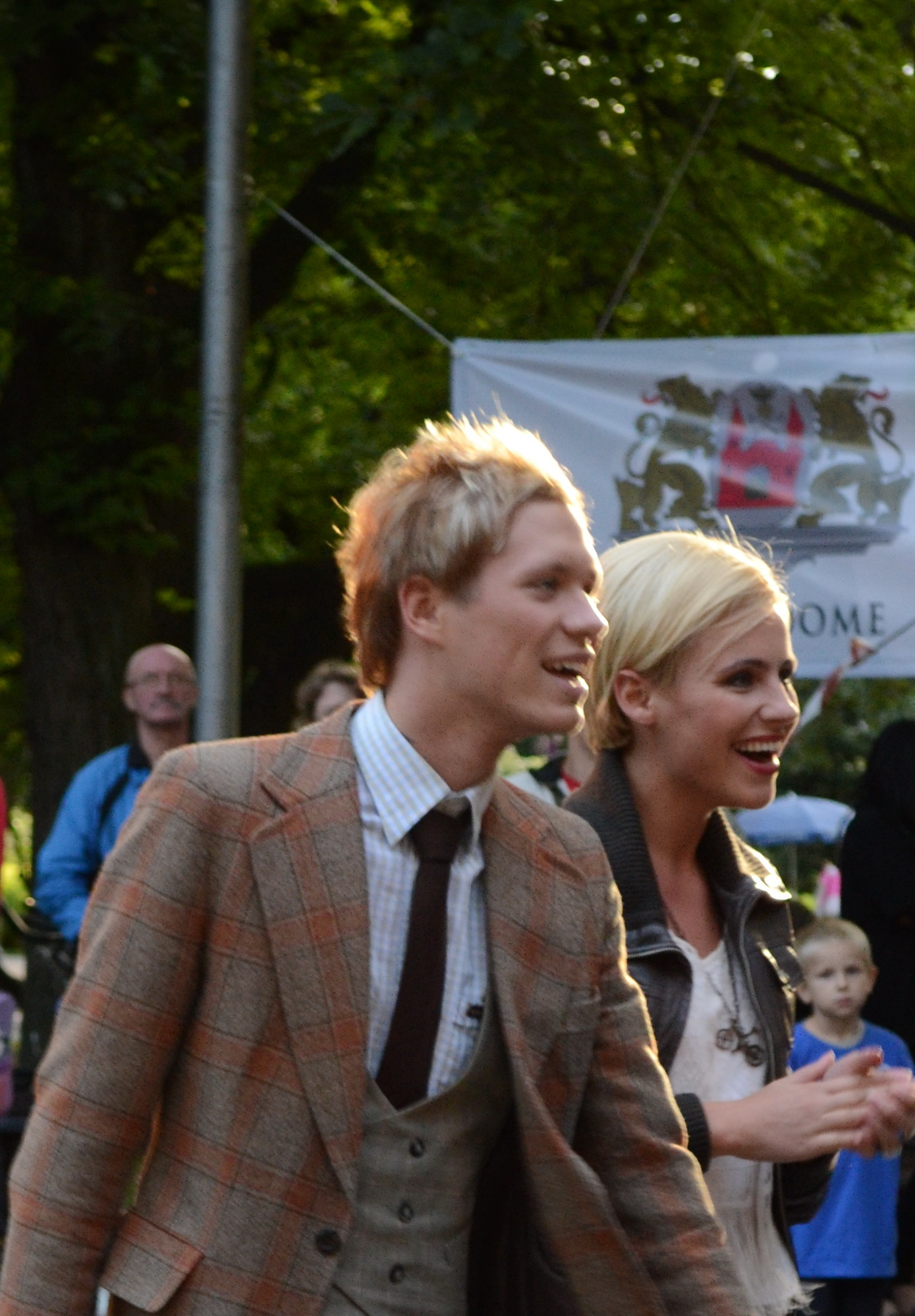 Latvian singer Ralfs Eilands from band PeR